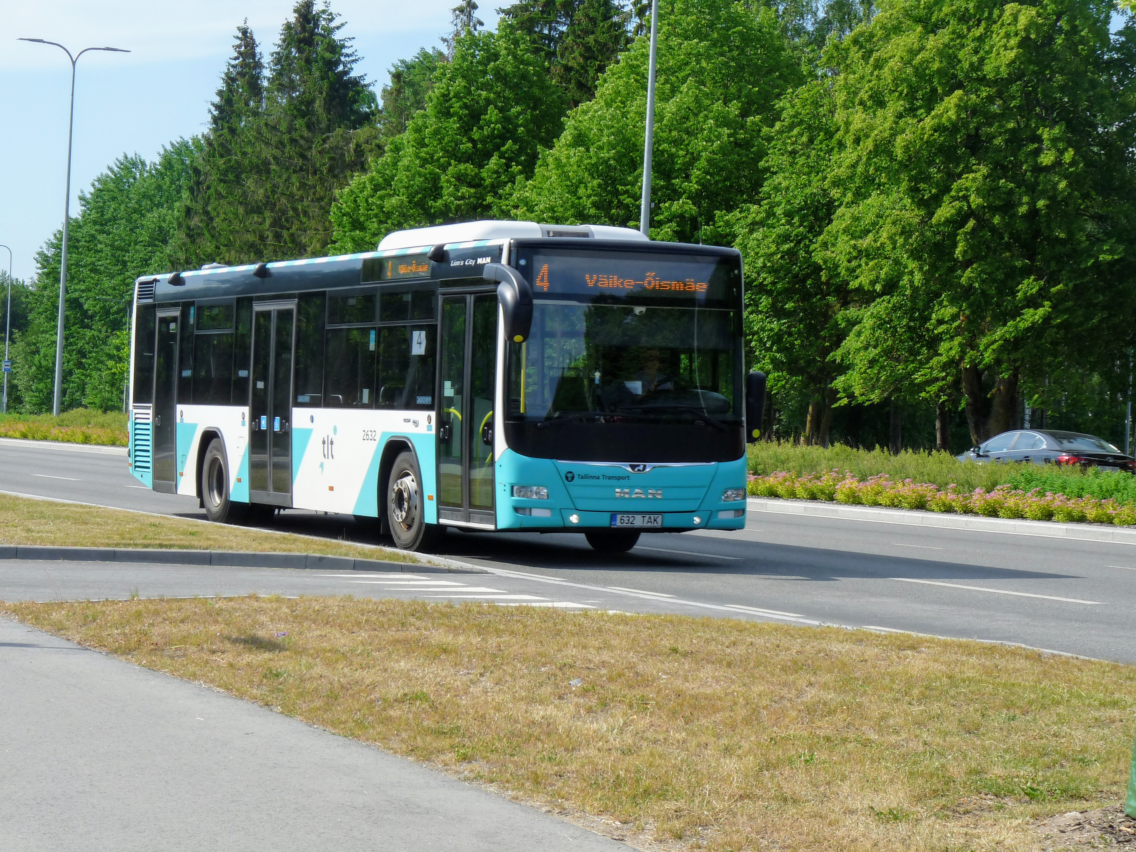 Public bus in Tallinn, Estonia